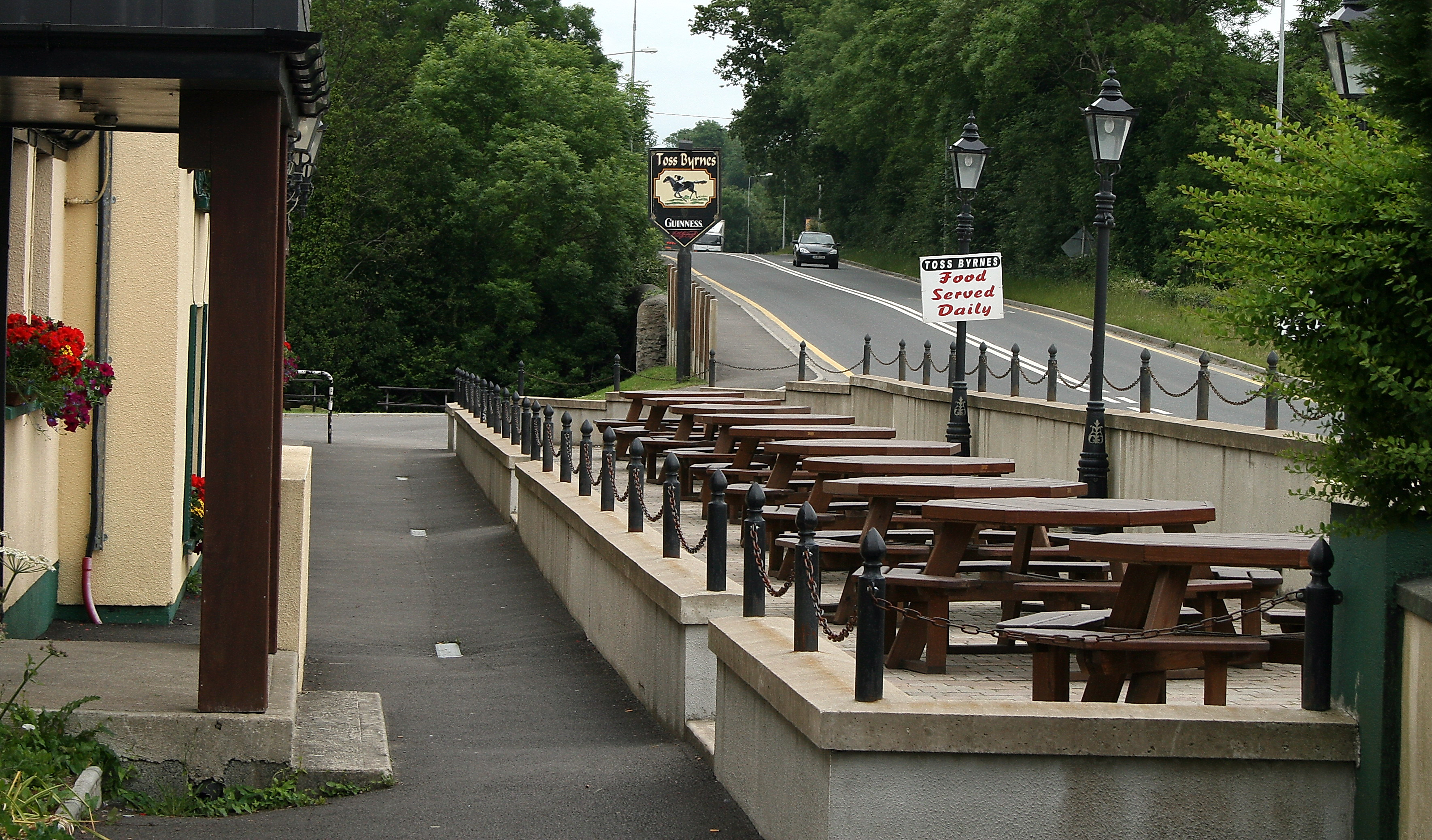 The village of Inch, County Wexford, Ireland viewed from Toss Byrne's pub.